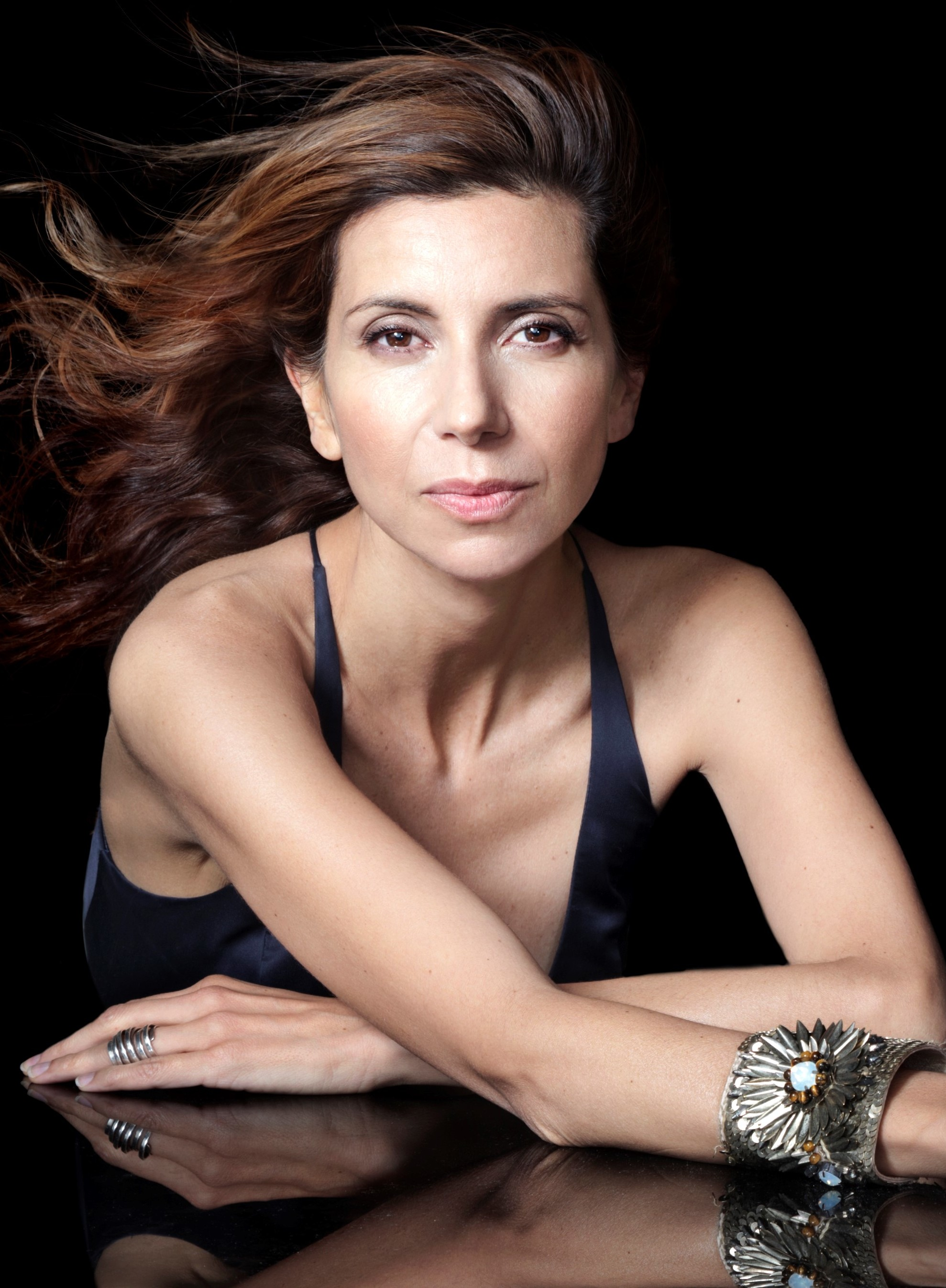 Magos Herrera with an old record player